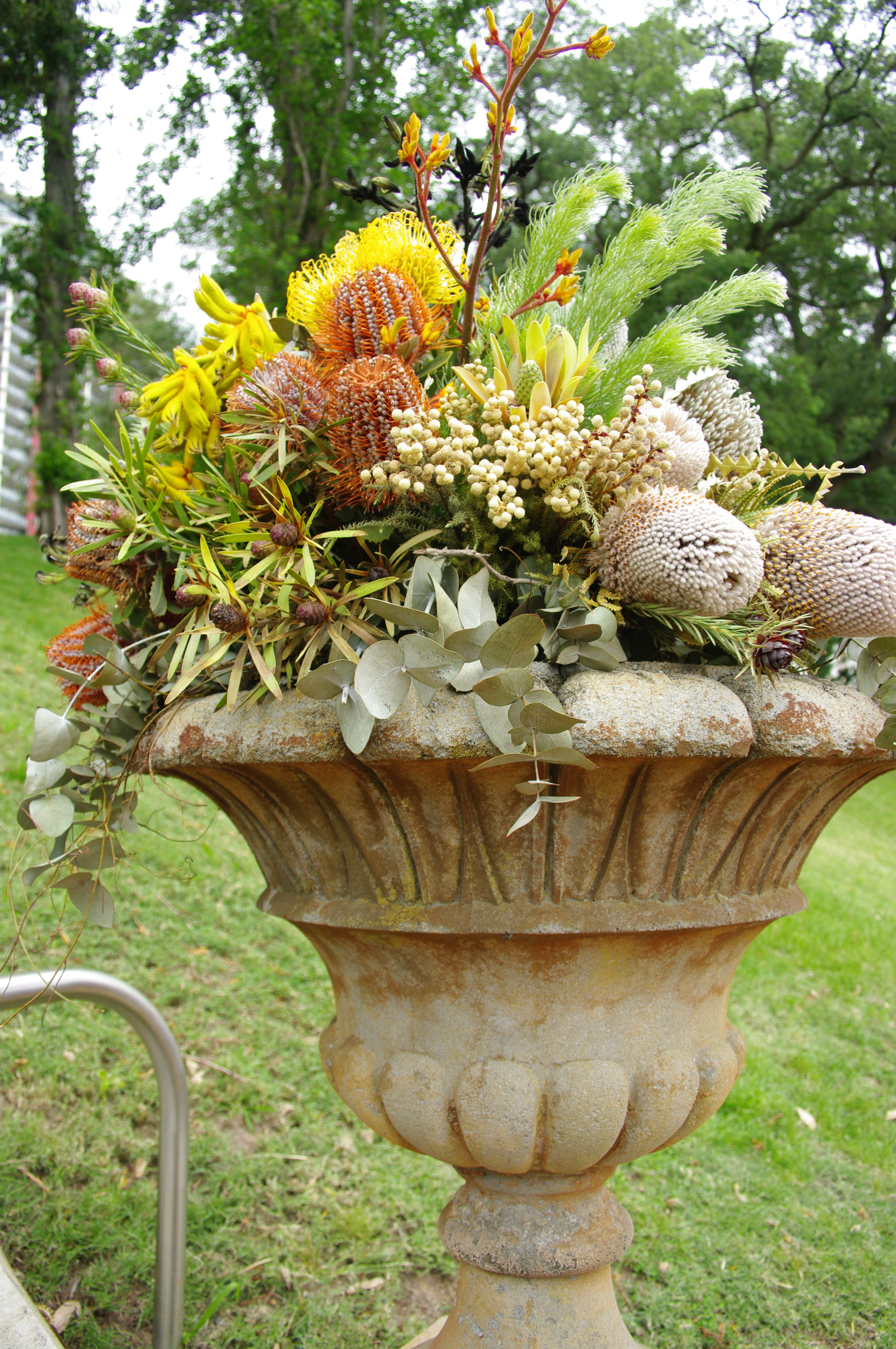 Photographs taken during Heritage Day Perth Western Australia Government House, Western Australia